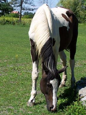 Bay tobiano mare